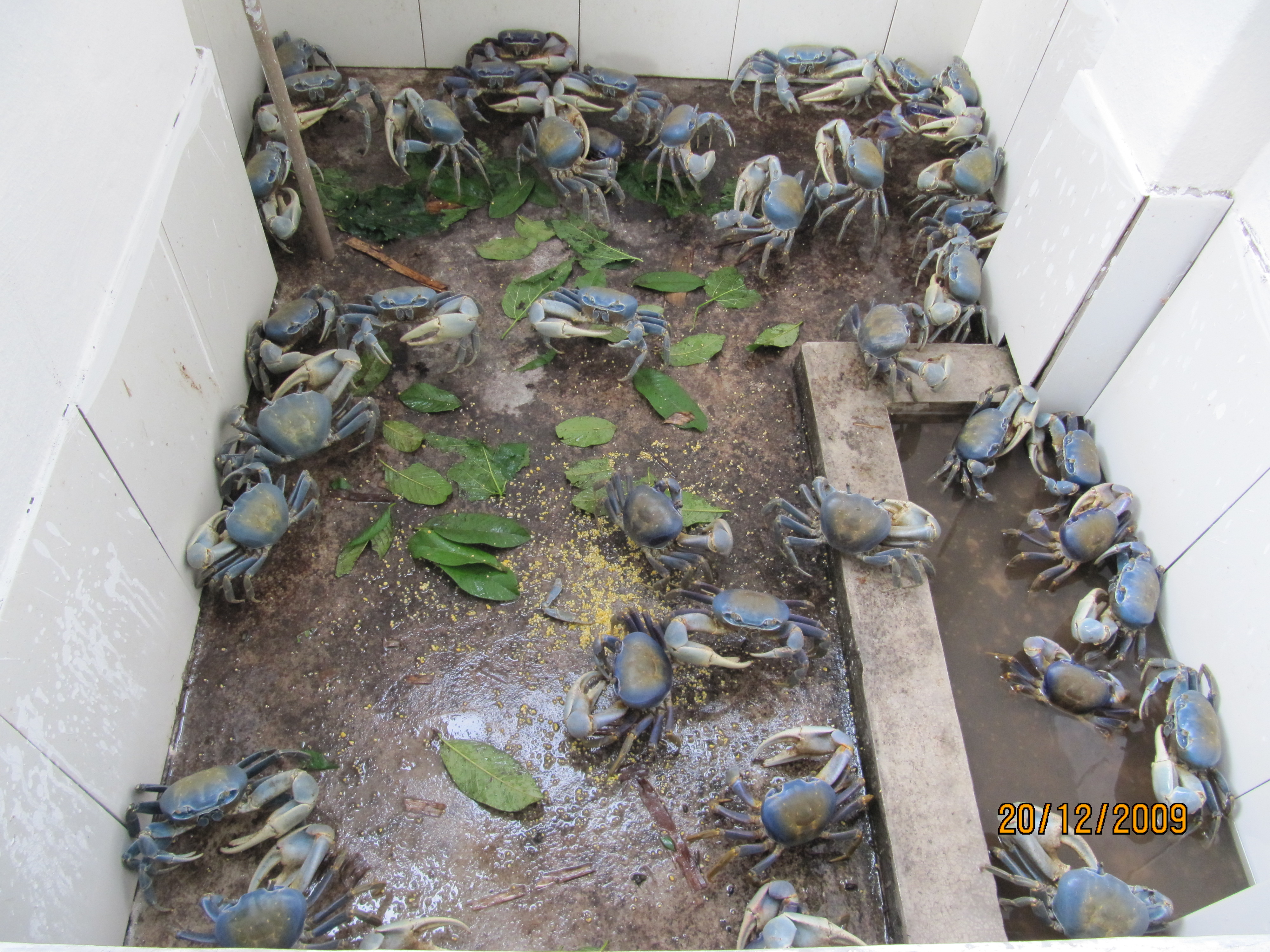 Guaiamus em um tanque de criação.